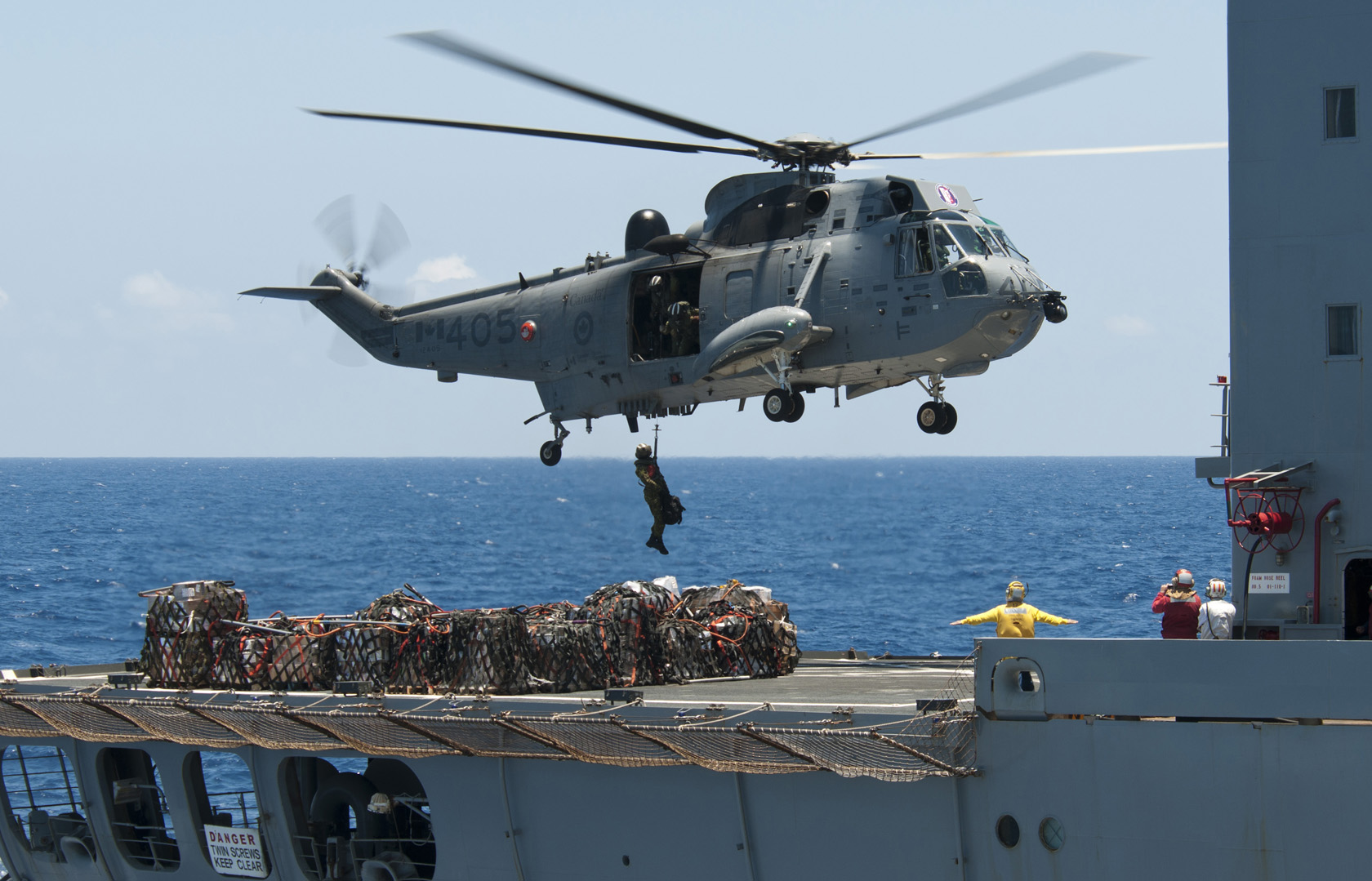 PACIFIC OCEAN (July 21, 2012) A Royal Canadian Navy CH-124A Sea King helicopter lowers a crewmember onto the flight deck of the Military Sealift Command fleet replenishment oiler USNS Yukon (T-AO 202) while conducting a vertical replenishment during Rim of the Pacific (RIMPAC) 2012. Twenty-two nations, more than 40 ships and submarines, more than 200 aircraft and 25,000 personnel are participating are participating in the biennial RIMPAC exercise from June 29 to Aug. 3, in and around the Hawaiian Islands. The world's largest international maritime exercise, RIMPAC provides a unique training opportunity that helps participants foster and sustain the cooperative relationships that are critical to ensuring the safety of sea lanes and security on the world's oceans. RIMPAC 2012 is the 23rd exercise in the series that began in 1971. (U.S. Navy photo by Mass Communication Specialist 3rd Class Raul Moreno Jr./Released) 120721-N-LP801-312 Join the conversation navylive.dodlive.mil